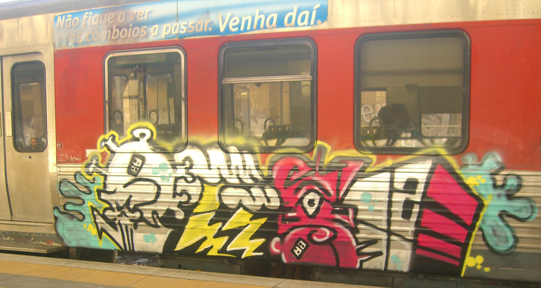 Graffiti on a European train.